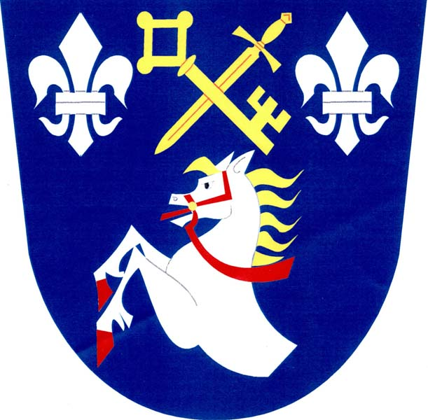 Municipal coat of arms of Dětřichov village, Svitavy District, Czech Republic.